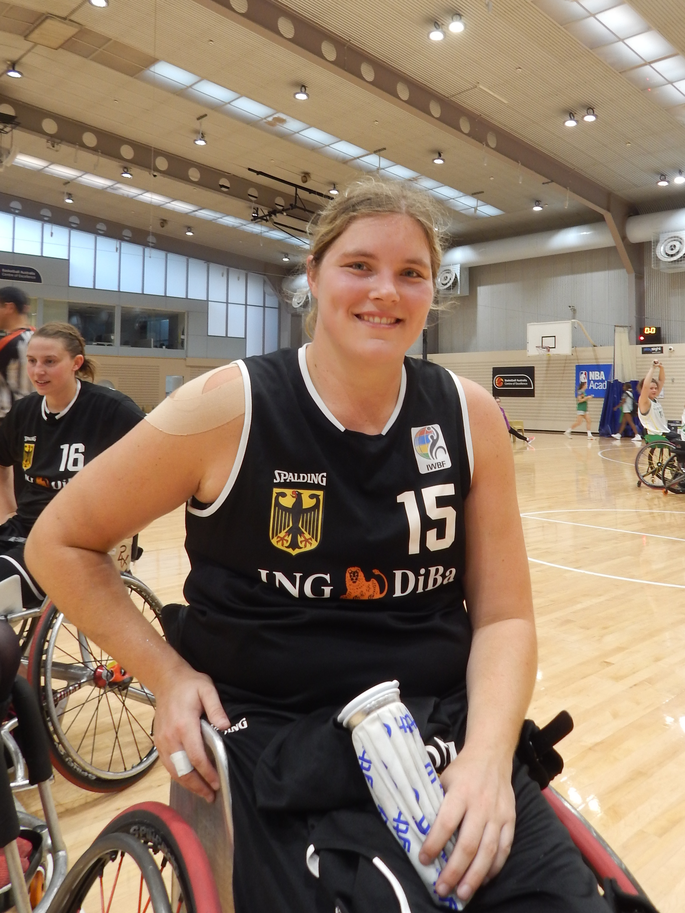 Germany No. 15 - Barbara Gross